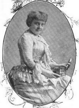 Frances Hodgson Burnett